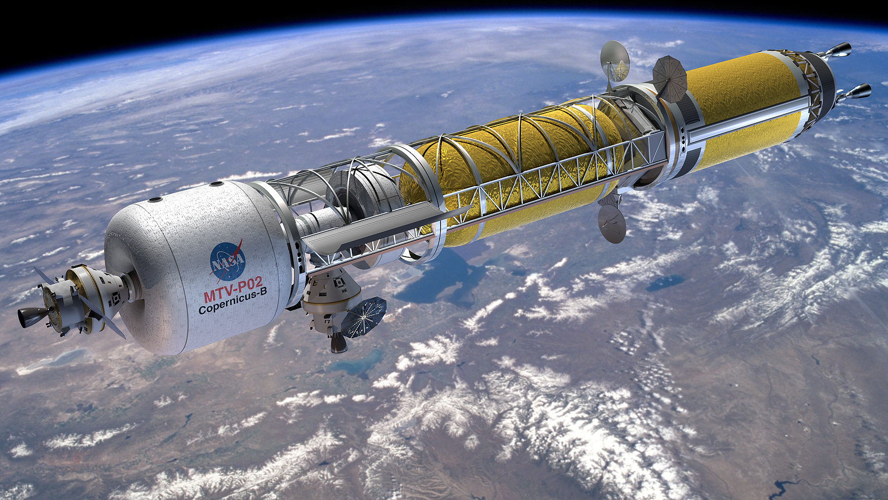 Artist's rendering of a Bimodal Nuclear Thermal Transfer Vehicle "Copernicus" in LEO. Credits : John Frassanito & Associates.